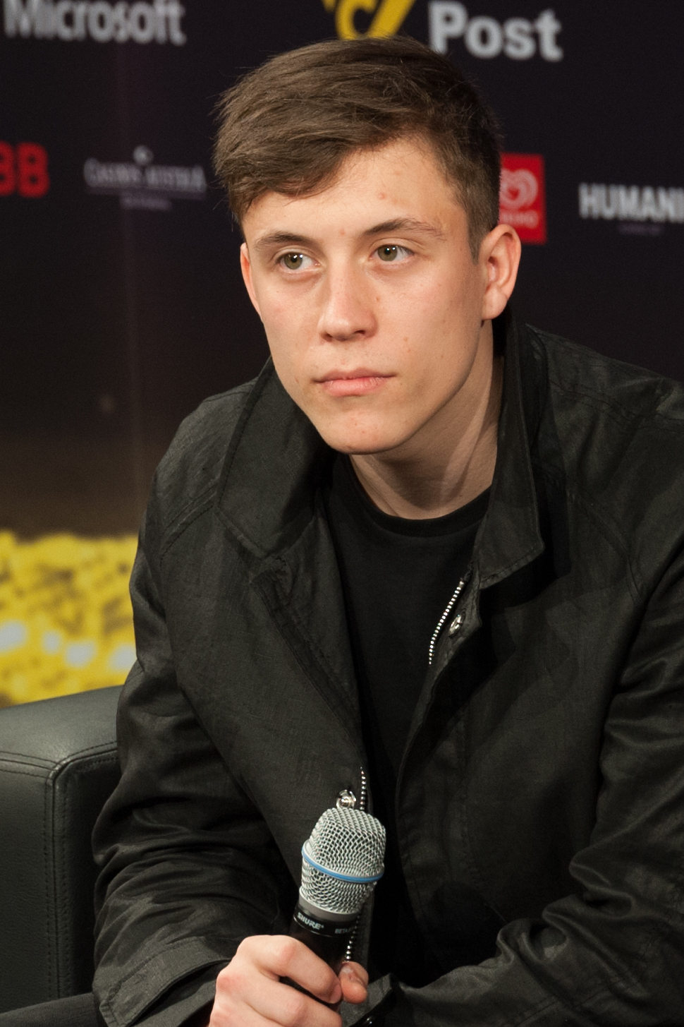 Eurovision Song Contest Vienna 2015: Loïc Nottet